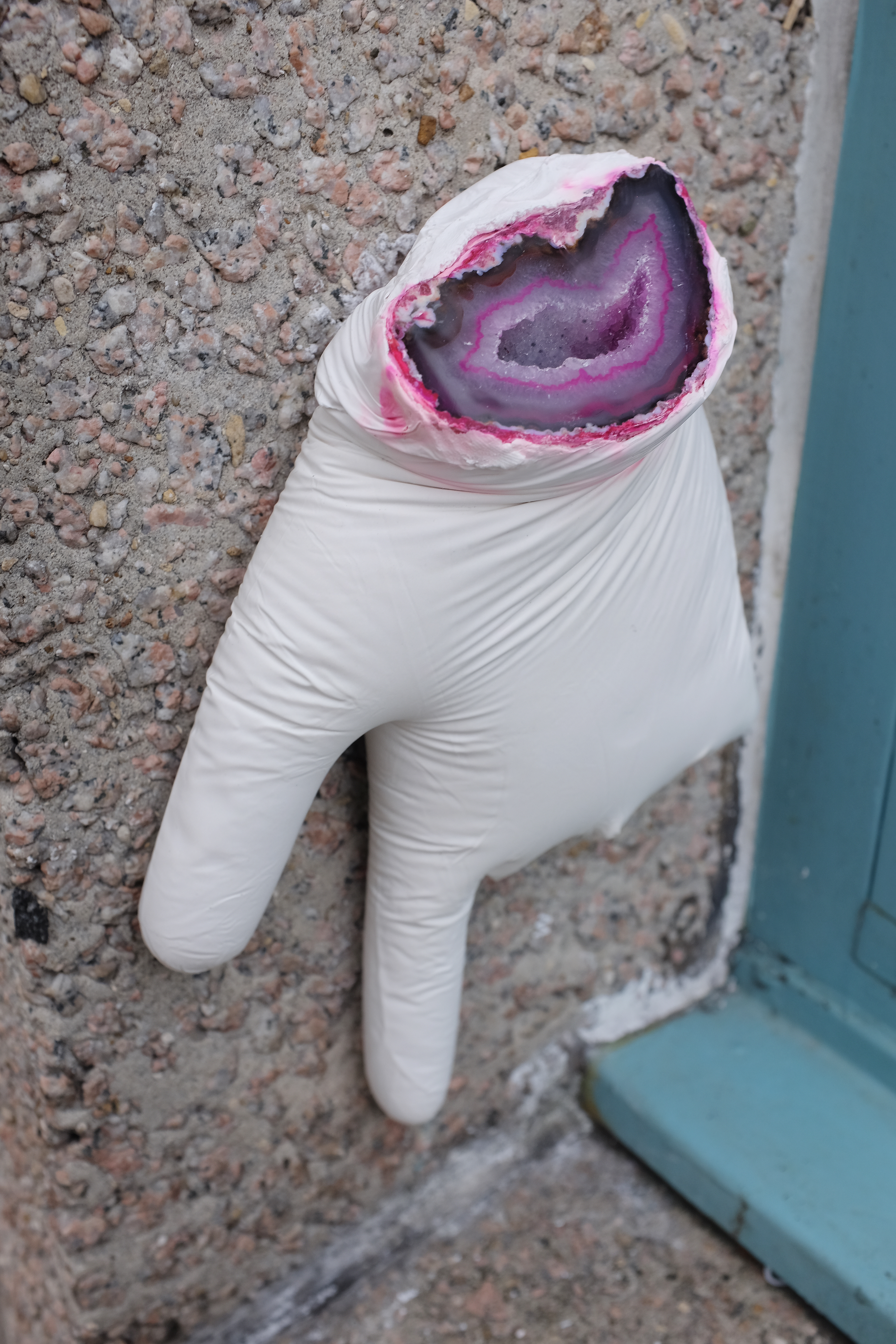 These Crystal-Math hands by Sarah Schönfeld are part of an exhibition organized by Zabriskie Point in Geneva in 2016